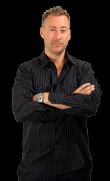 Photo taken of Jeff Berwick in Acapulco 2012